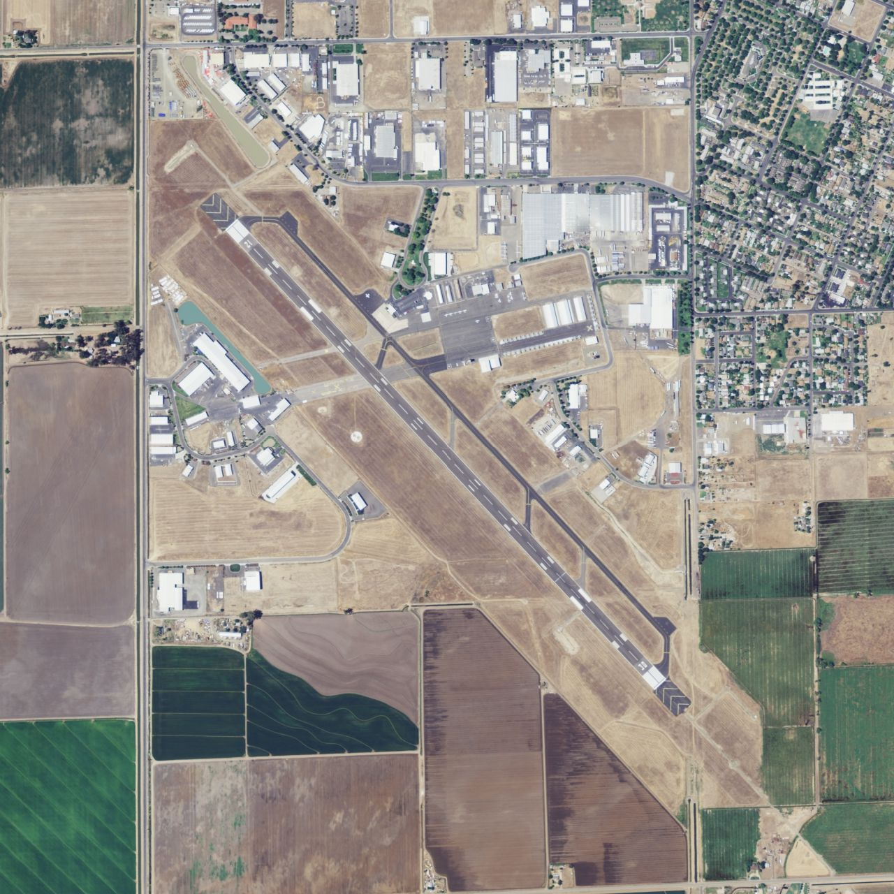 Aerial photograph of Merced Regional Airport.